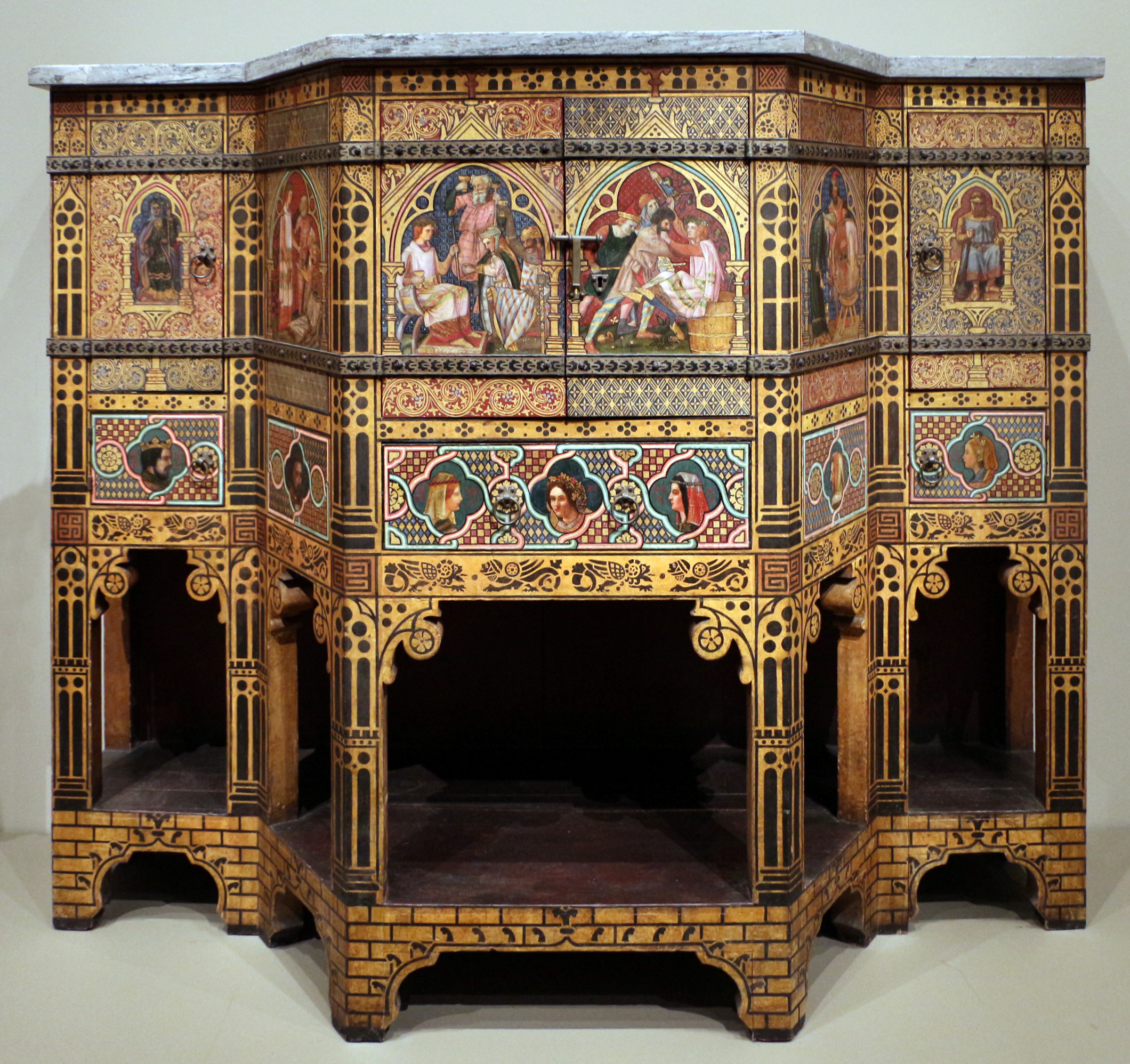 European furniture in the Art Institute of Chicago